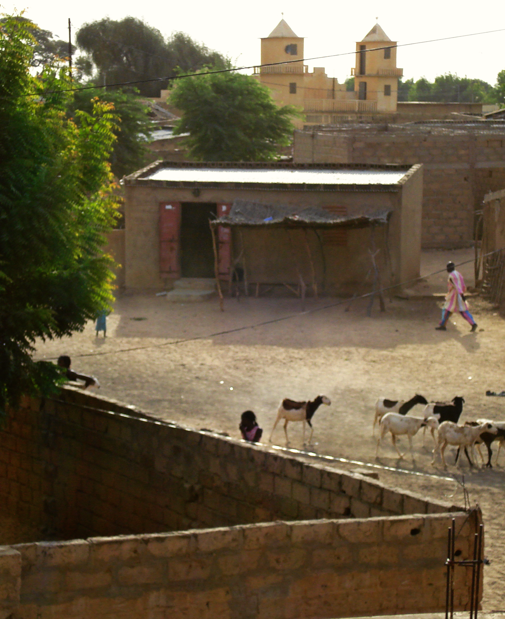 text